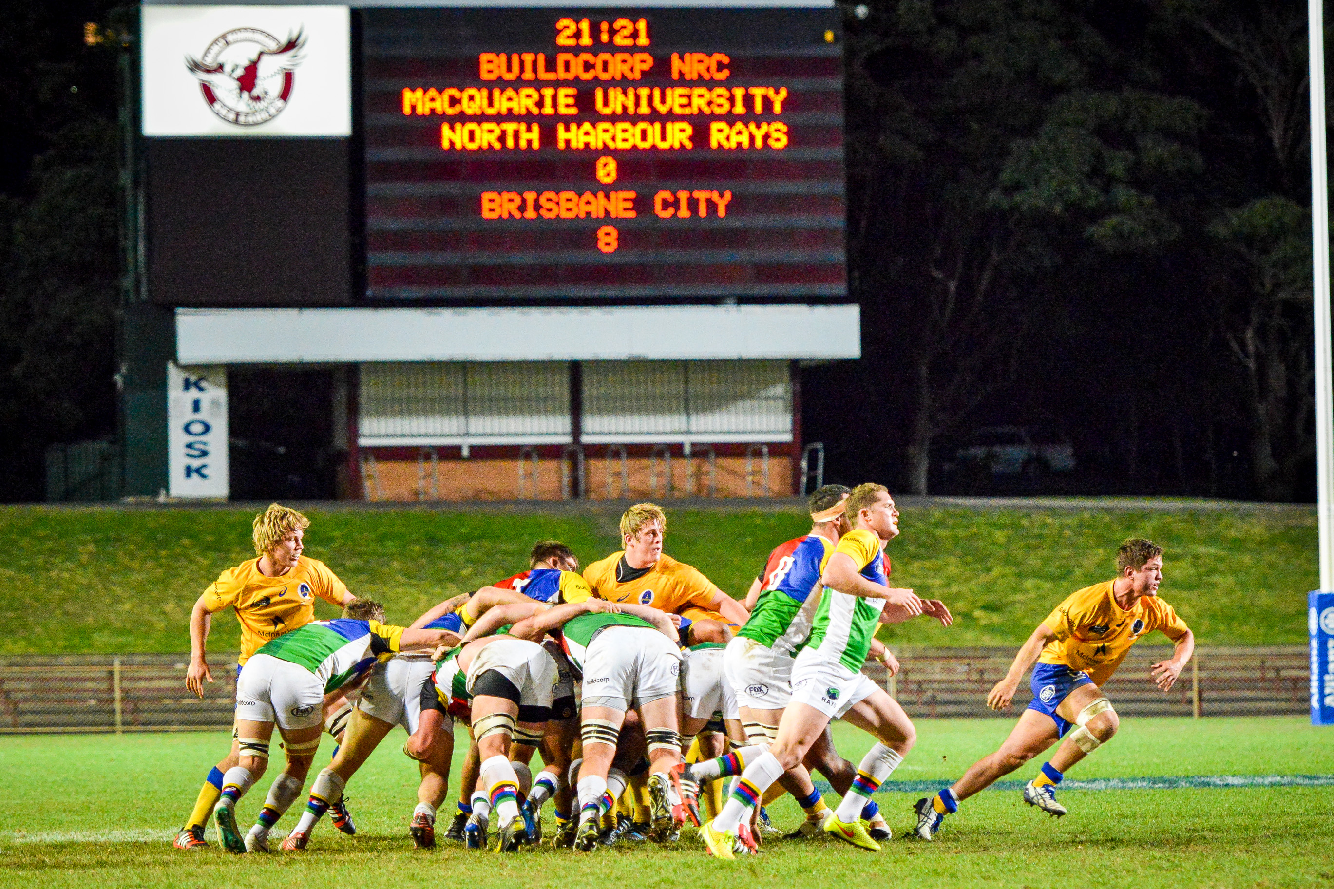 Brisbane City versus North Harbour Rays NRC Round 8